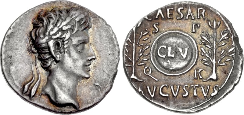 Augustus. 27 BC-AD 14. AR Denarius (18mm, 3.62 g, 6h). Spanish mint (Colonia Caesaraugusta?). Struck circa 19-18 BC. Head right, wearing oak wreath / S P Q R above and below shield inscribed CL•V; laurel branches flanking. RIC I 36a; ACIP 4037; RSC 51. Good VF, toned.